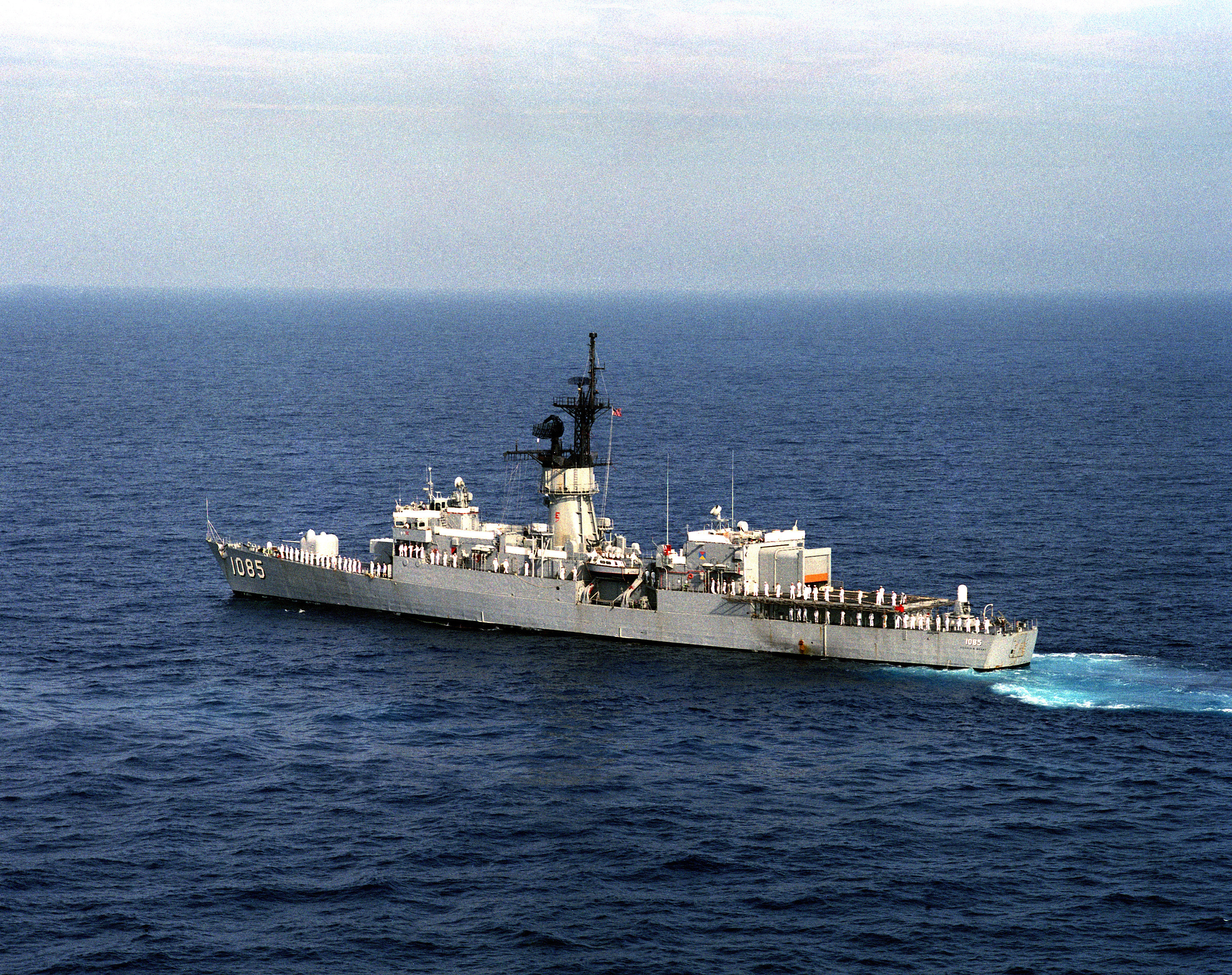 A port view of the frigate USS DONALD B. BEARY (FF-1085) underway.